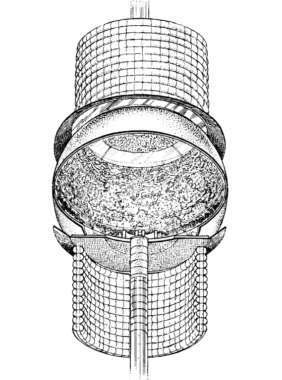 Axial cylinder is air passage and corridor to docks and industries in zero gravity.